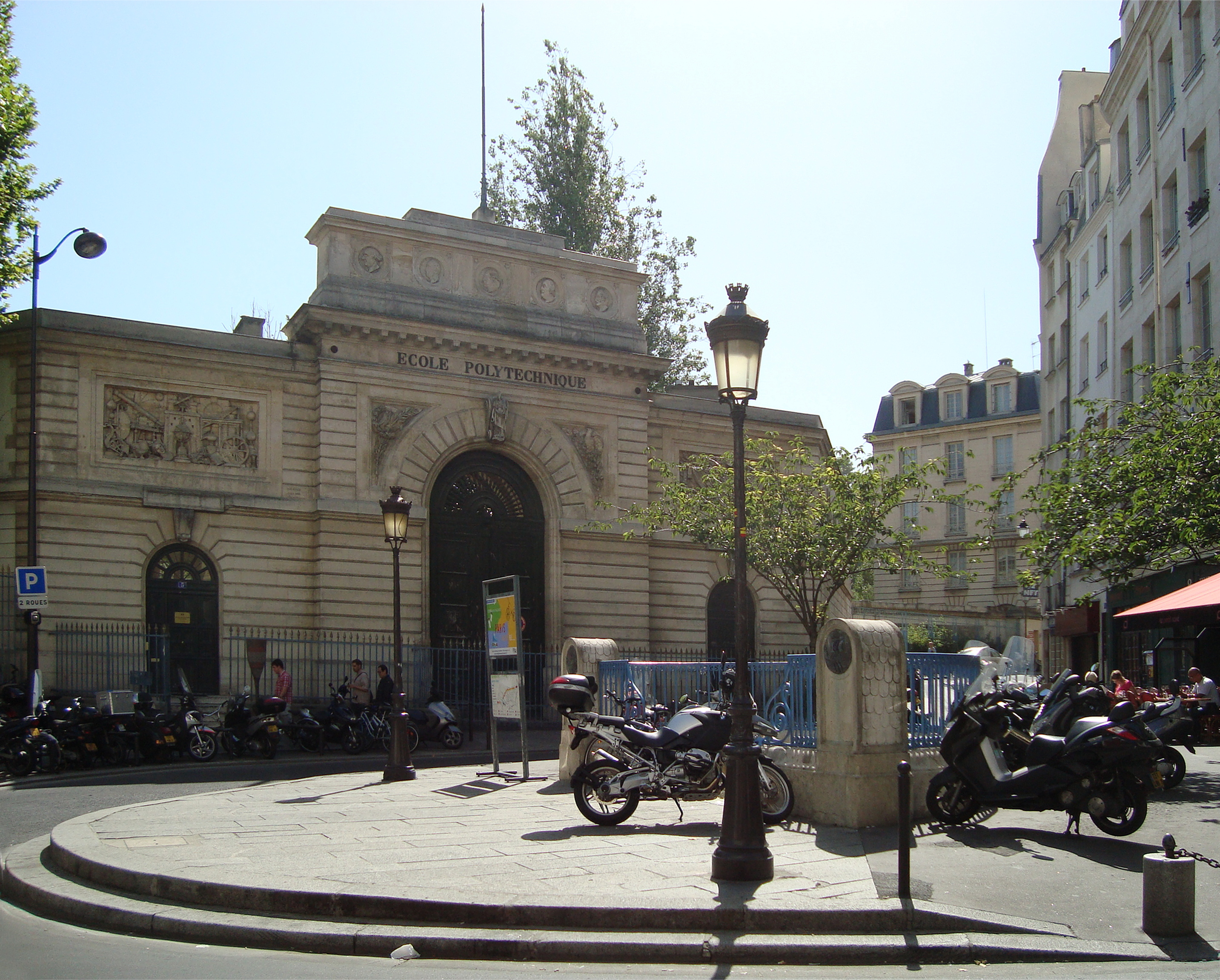 Historical entrance of the École Polytechnique (until 1976) in Paris at the junction of the rue de la Montagne Saint-Genevieve and rue Descartes. The premises are now those of the Ministry for Higher Education and Research.